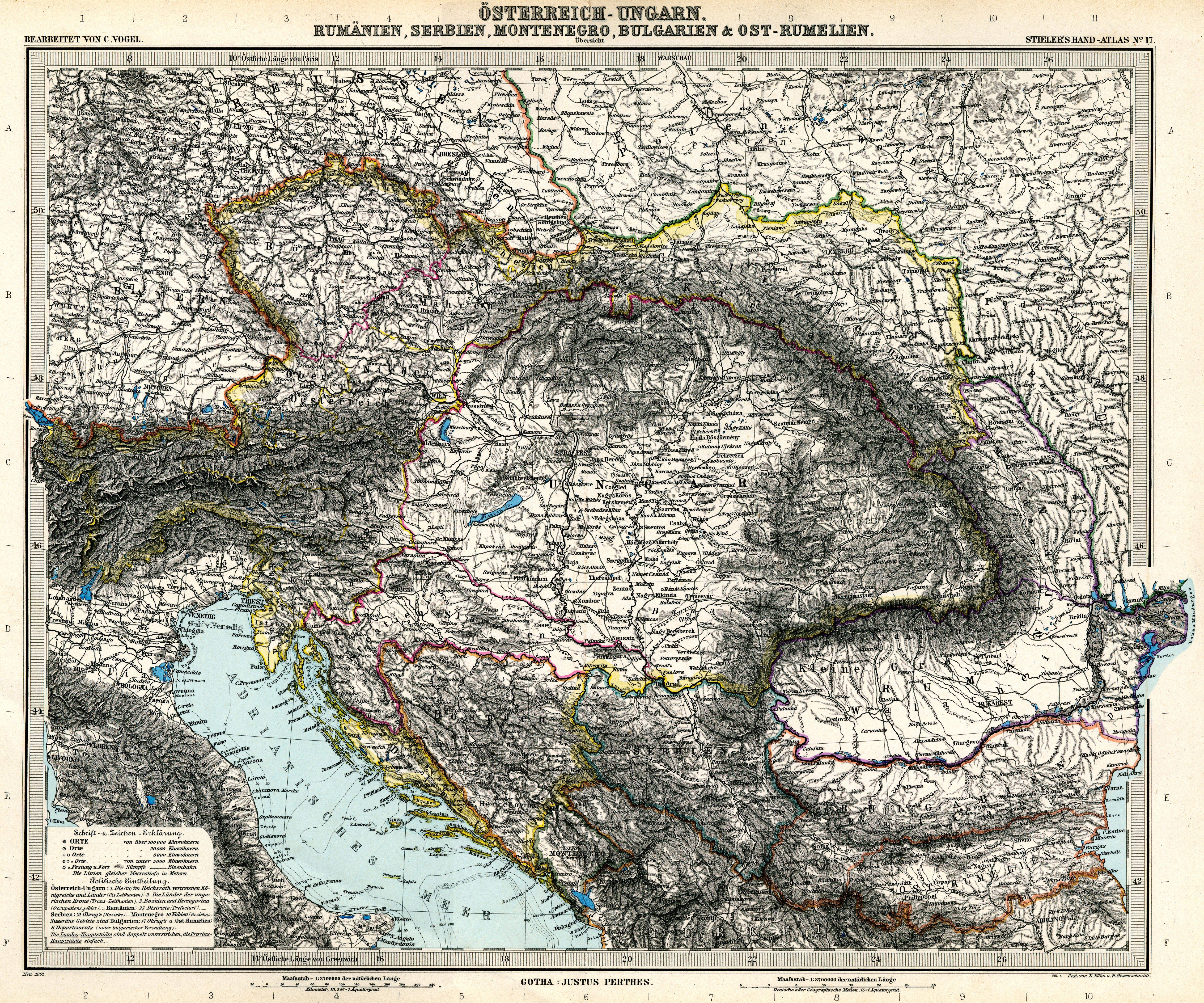 Austria-Hungary. Rumania, Serbia, Montenegro, Bulgaria and Eastern Rumelia. Overview